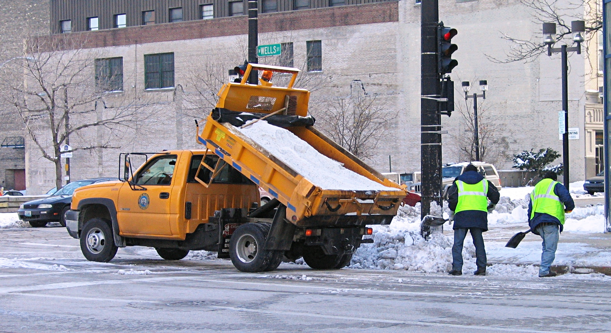 Workers manually spreading salt from a salt truck in Milwaukee, Wisconsin.